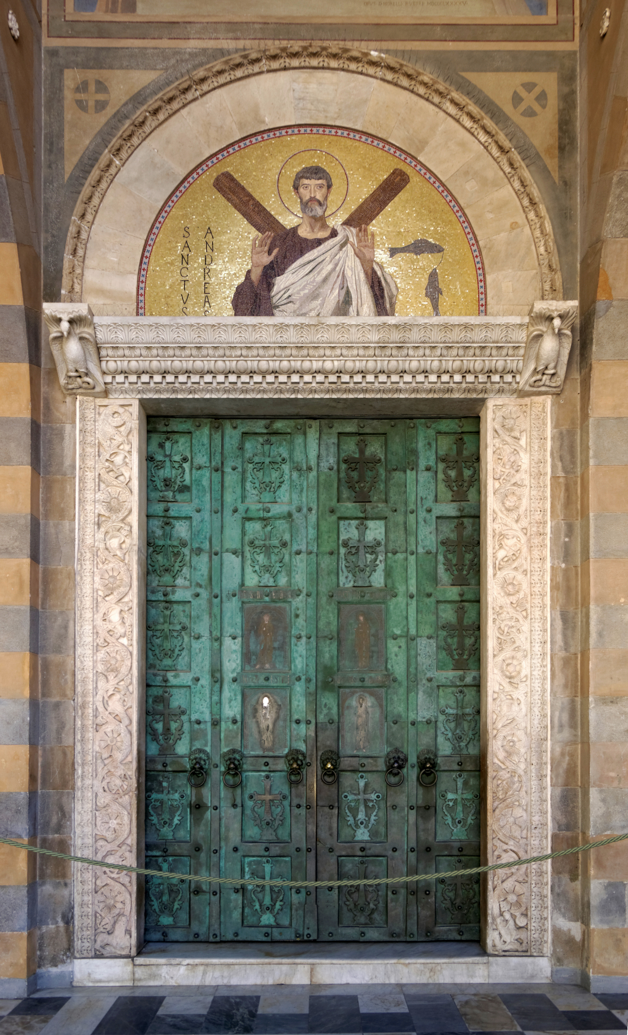 Amalfi, cathedral, entrance